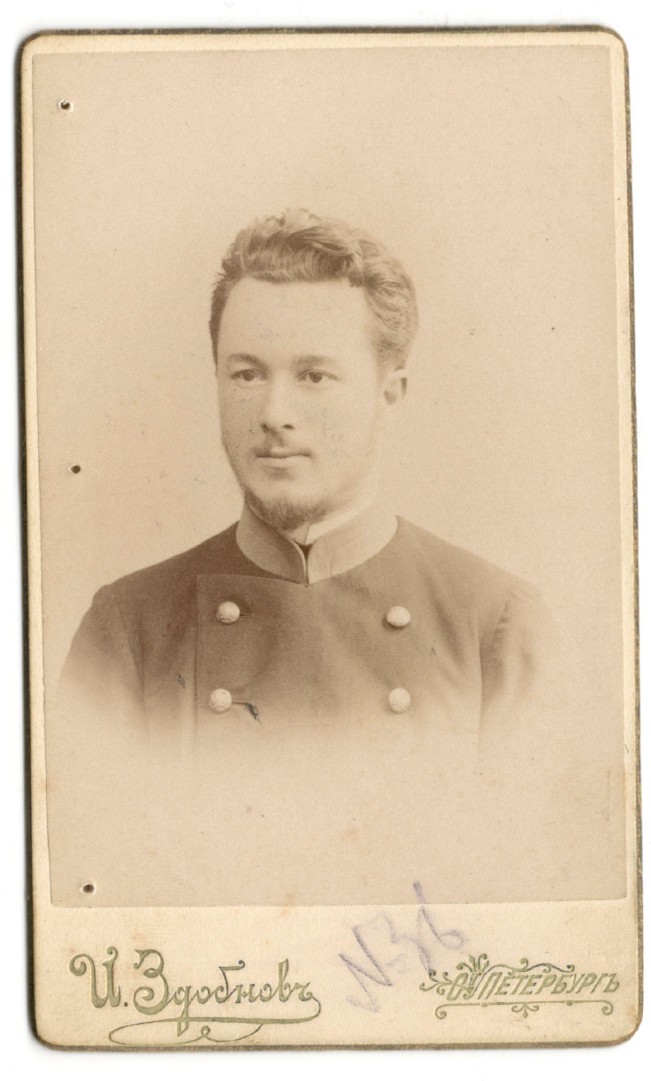 Russian scientist (metallurgy and coke) Nikolay Tchizhevsky, photo by I. Zdobnov, Saint Petersburg, Russia, 1898.